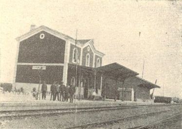 Sabugo Railway Station, on the Oeste Railway, in Portugal. This photograph was taken before 1936, when the station was modified. Published on the Gazeta dos Caminhos de Ferro magazine No. 1172, of 16th October 1936, and scanned by the Hemeroteca Municipal de Lisboa.